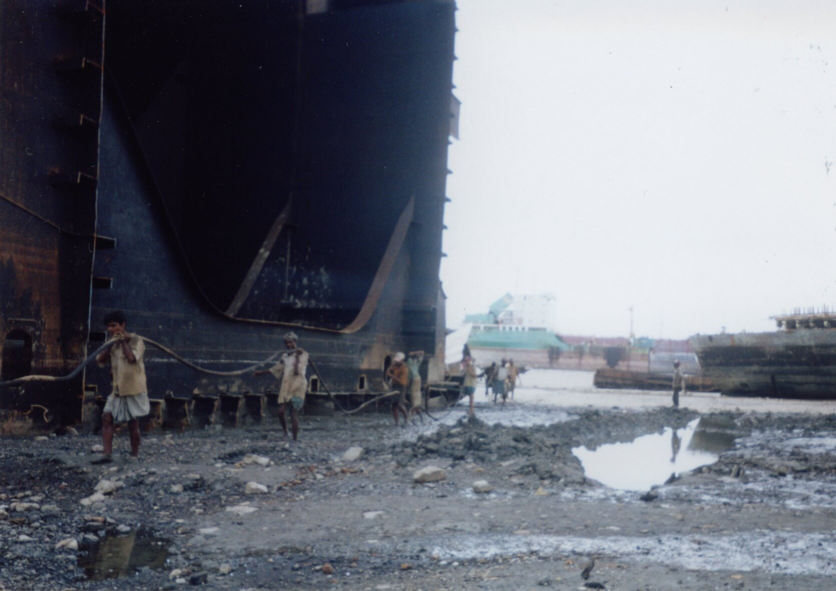 shipbreaking in Bangladesh near Chittagong